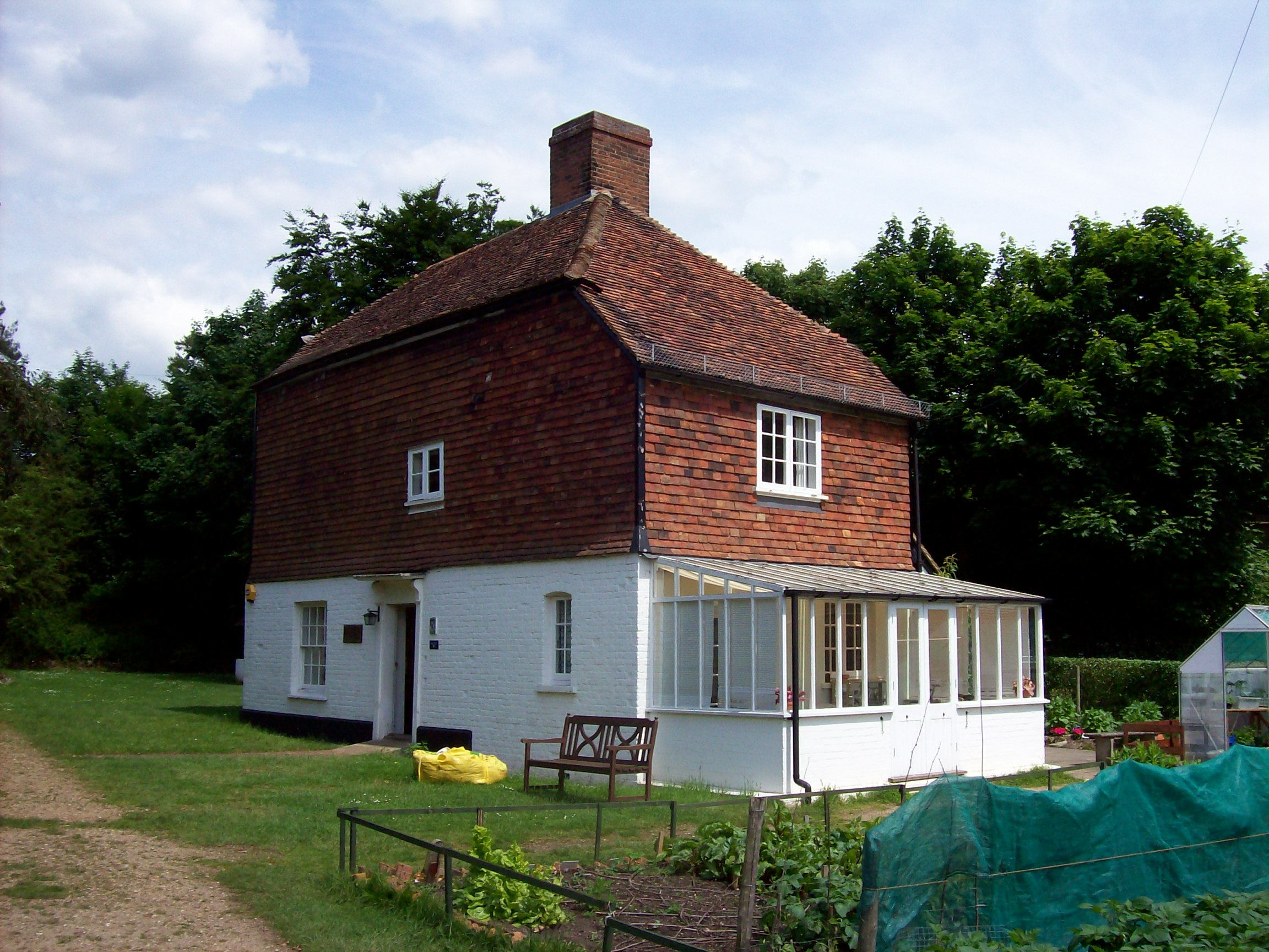 Photograph of Sandling Farmhouse, Museum of Kent Life